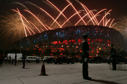 Fireworks explode over China's National Stadium in Beijing Friday night, Aug. 8, 2008, during the finale of the Opening Ceremonies for the 2008 Summer Olympics.